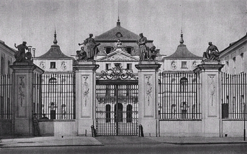 Brühl Palace (otherwise known as Sandomierski Palace) in Warsaw.